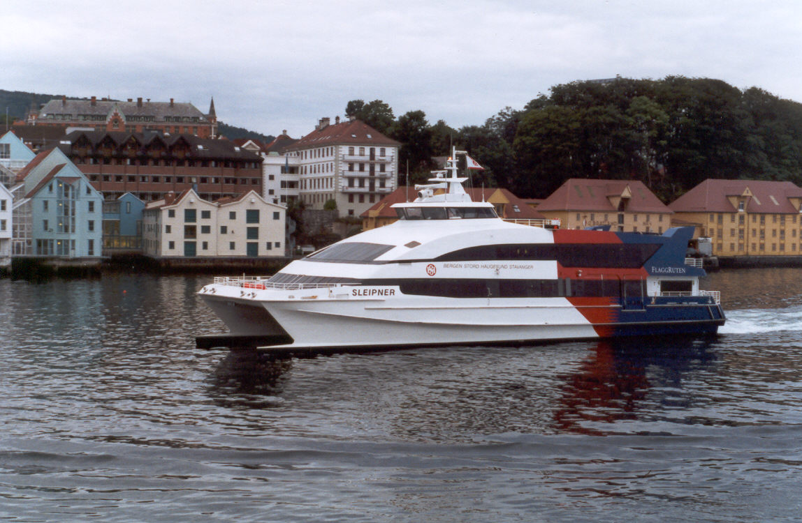 M/S Sleipner, built in 1999, arriving in the harbor of Bergen, Norway in 1999. Enroute from Stavanger and Haugesund.